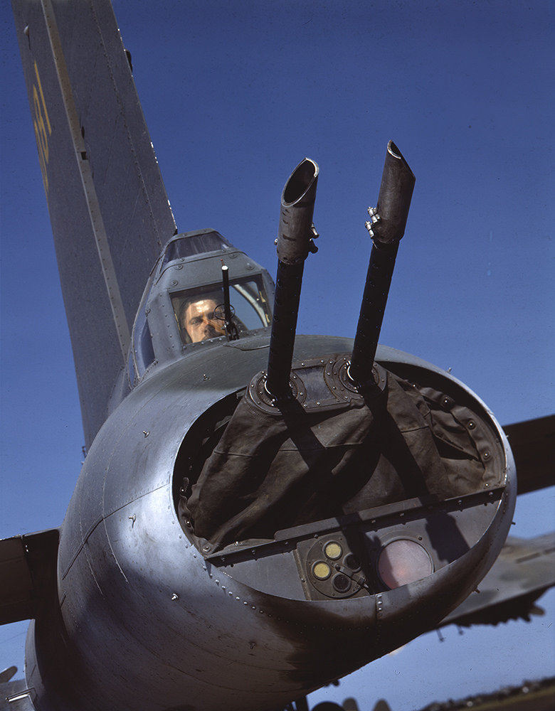 Title: [Tail Gunner in Boeing B-17 Flying Fortress, World War II] Creator: Richie, Robert Yarnall, 1908-1984 Date: April or May 1943 Place: Mitchel Field Air Force Base, Long Island, New York Part Of: Robert Yarnall Richie photograph collection Physical Description: 1 transparency: film, color; 13 x 10 cm File: ag1982_0234_2526_K_997_sm_opt.jpg Rights: This image is protected by copyright law. No commercial reproduction or distribution of this image is permitted without the written permission of Southern Methodist University, Central University Libraries. This image may be used for educational purposes, provided it is not altered in any way, and Southern Methodist University, Central University Libraries, DeGolyer Library is cited. A high-quality version of this file may be obtained for a fee by contacting . For more information, see: View the full series: View Robert Yarnall Richie photograph collection